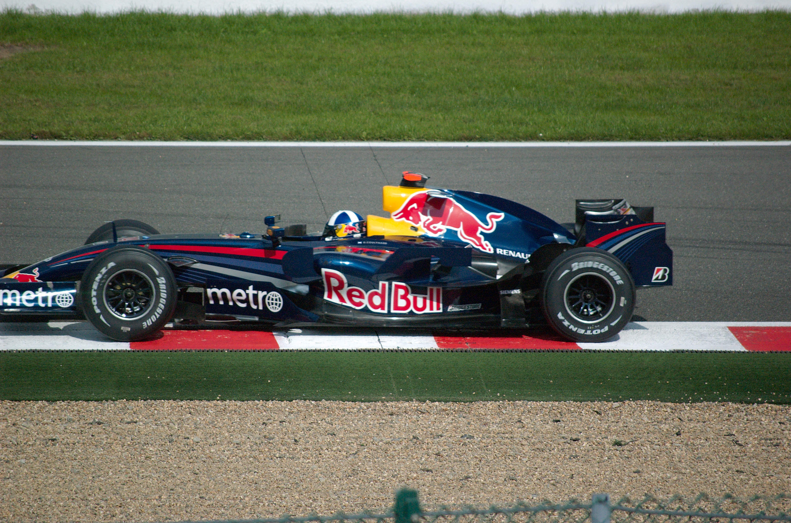 David Coulthard driving for Red Bull at the 2007 Belgian Grand Prix.